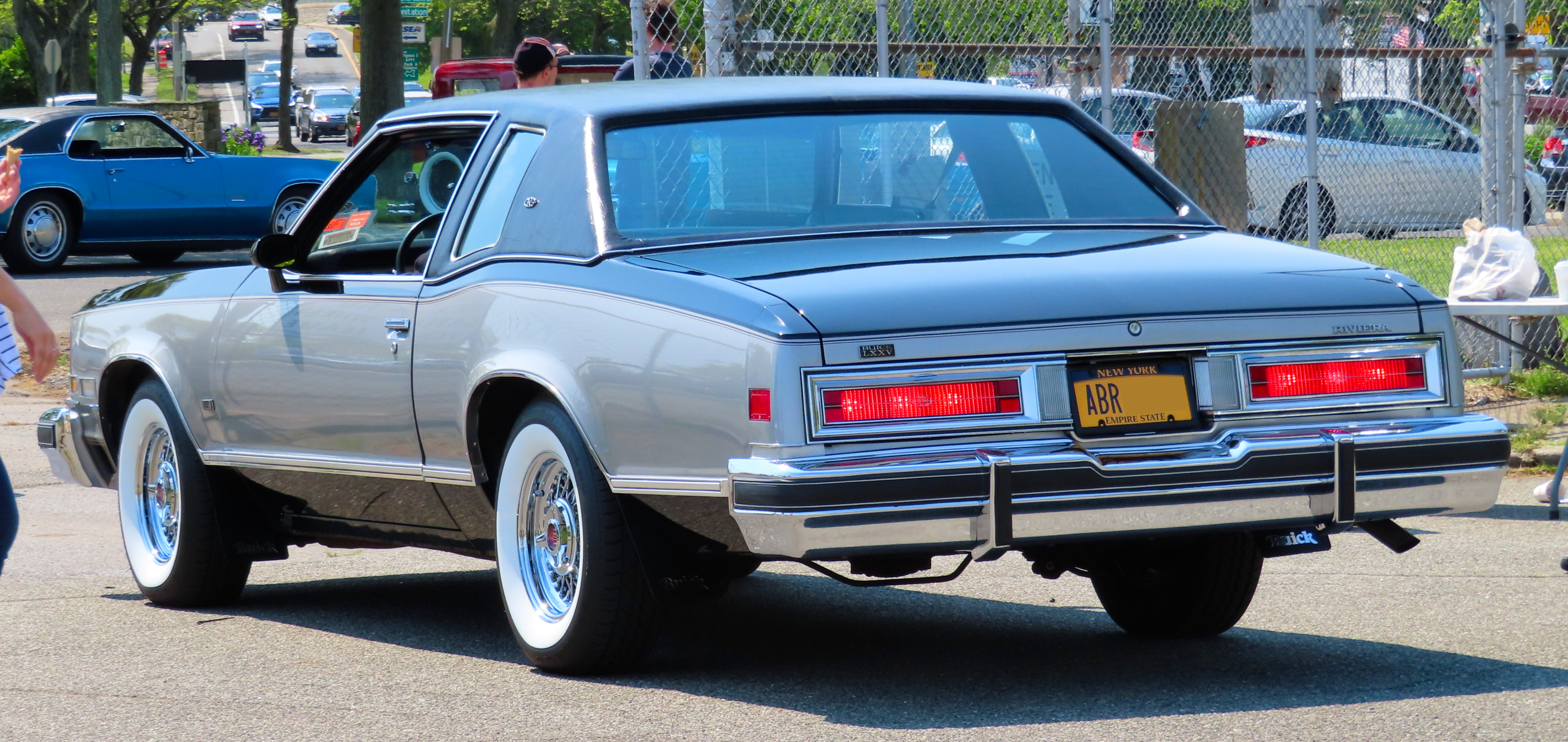 A 1978 Buick Riviera LXXV Edition photographed during at a classic car show, in Merrick, New York, USA